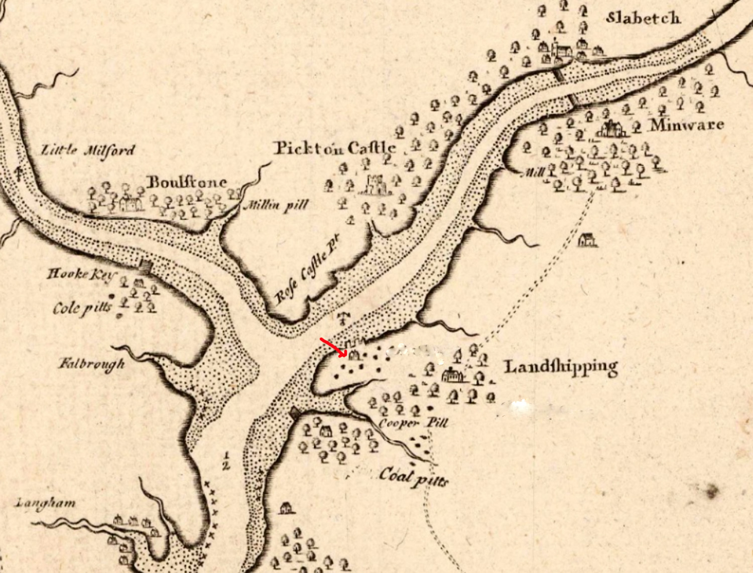 Map of Landshipping, Pembrokeshire in 1785